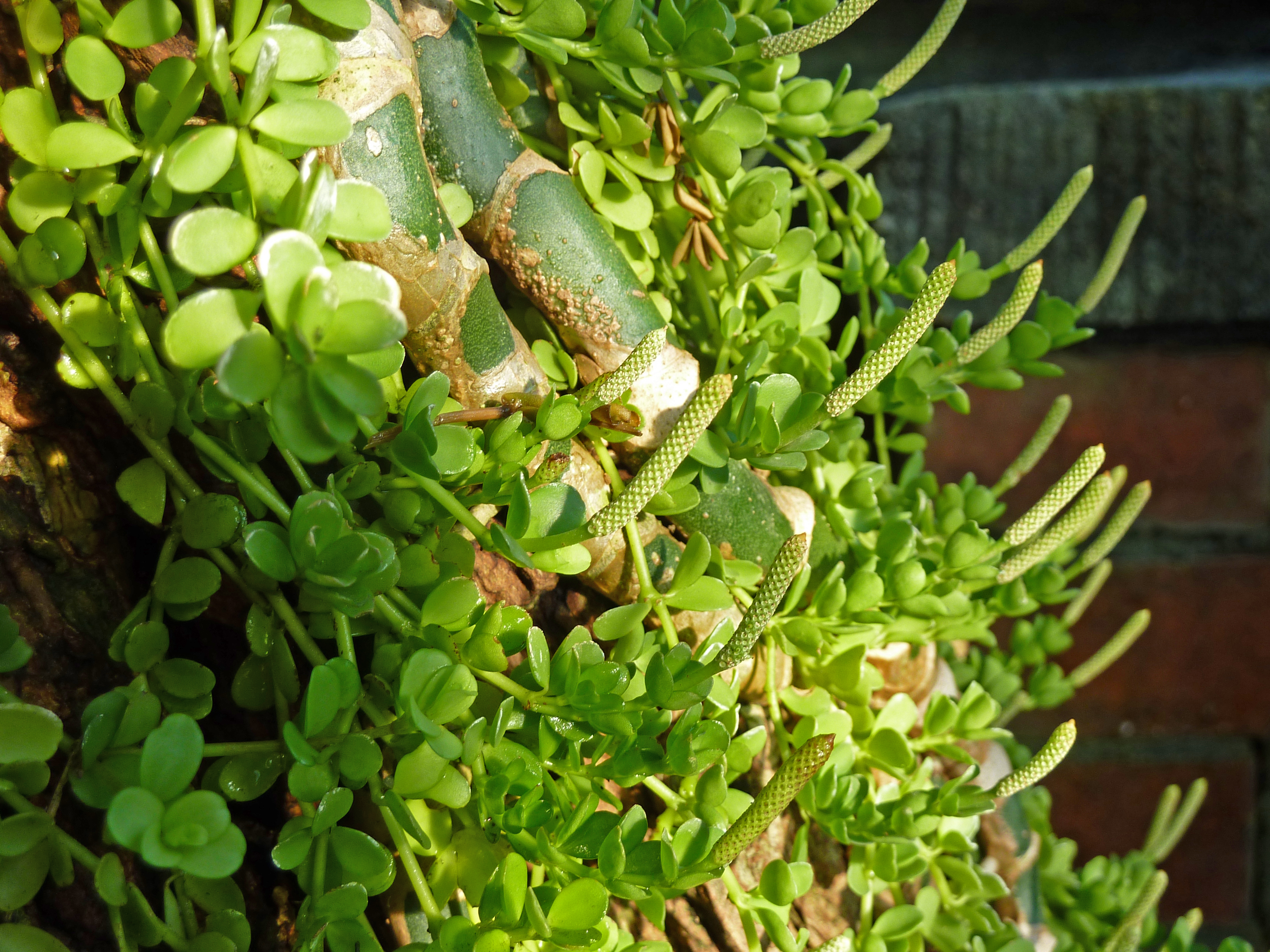 Peperomia hoffmannii in the Botanical Garden, Berlin